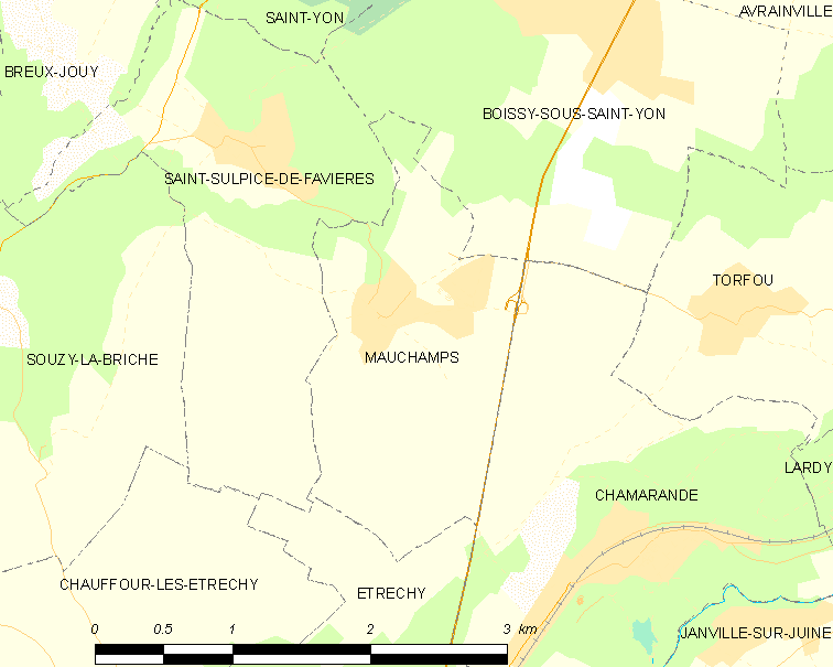 Map of French municipality Mauchamps